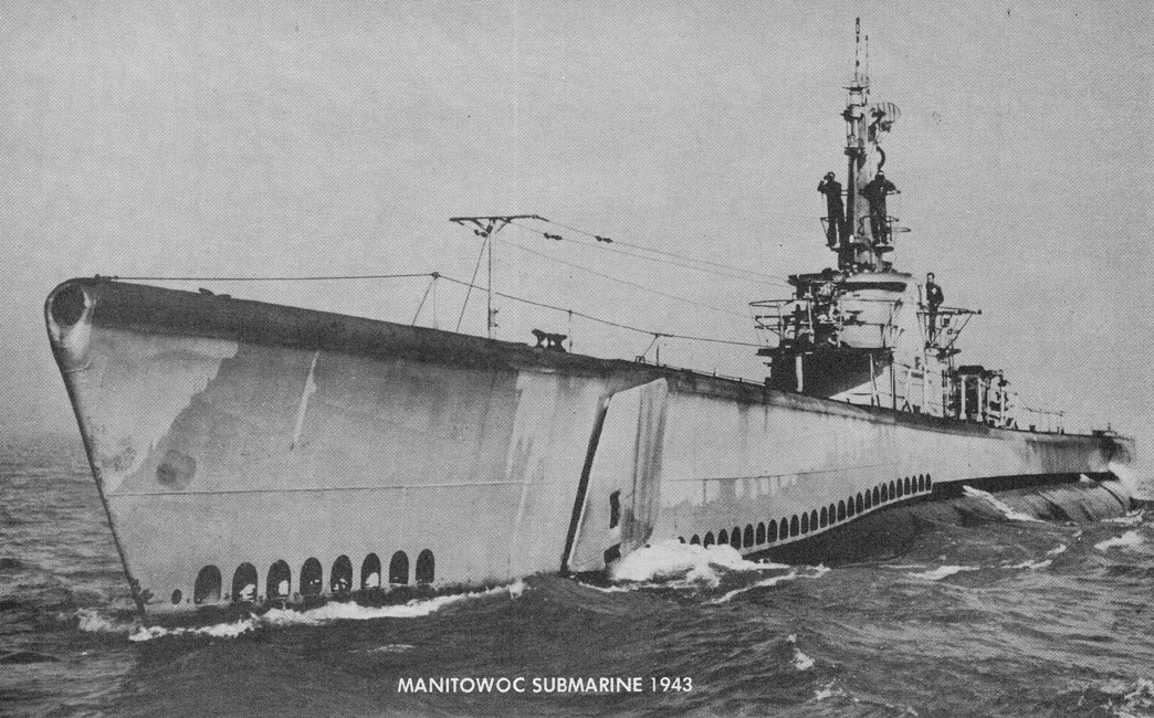 Manitowoc Shipbuilding Company submarine which first entered WWII in the Pacific Theater on 2 April 1943.